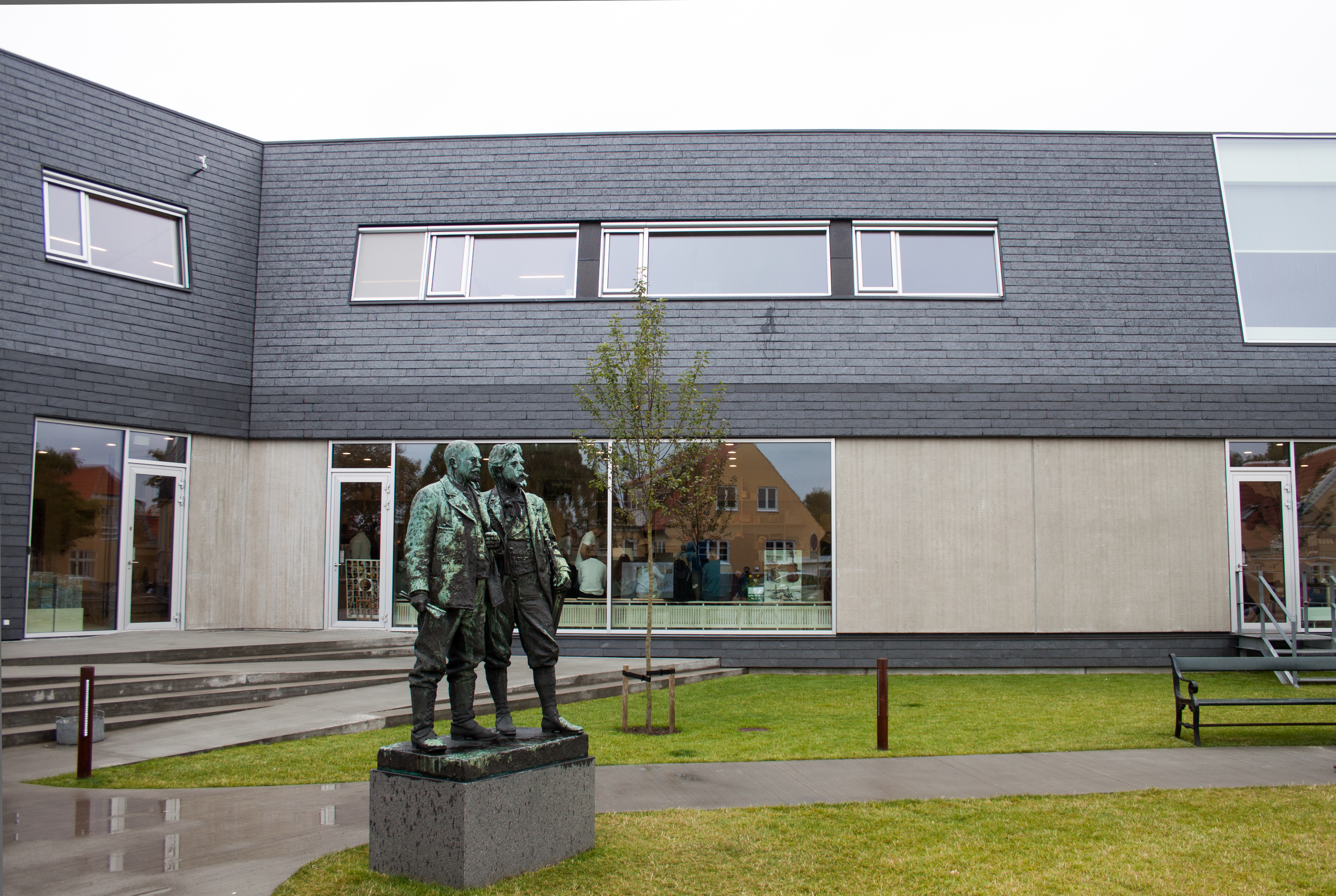 Statue of Michael Ancher and PS Krøyer by Laurits Tuxen in front of Skagens Museumlabel QS:Len,"Statue of Michael Ancher and PS Krøyer by Laurits Tuxen in front of Skagens Museum" label QS:Lhu,"Michael Ancher és PS Krøyer szobra, Laurits Tuxen alkotása, a Skageni Múzeum előtt"